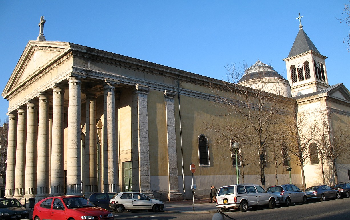 Catholic church Saint Pothin in Lyon, France